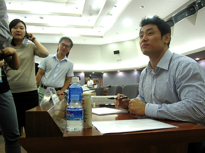 Song Daenam at an event in 2012